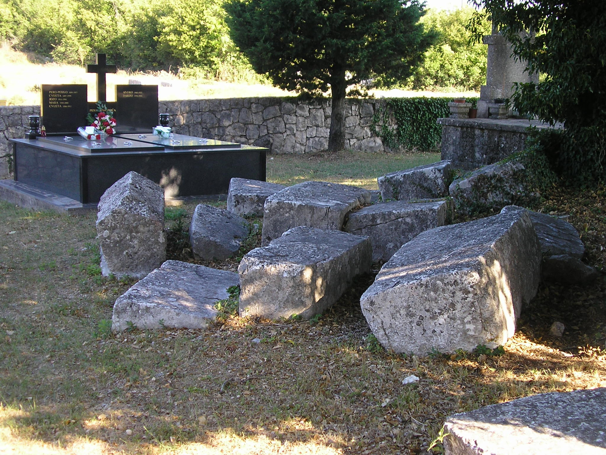 Stećci near St. Anthony of Padua church in Brštanica